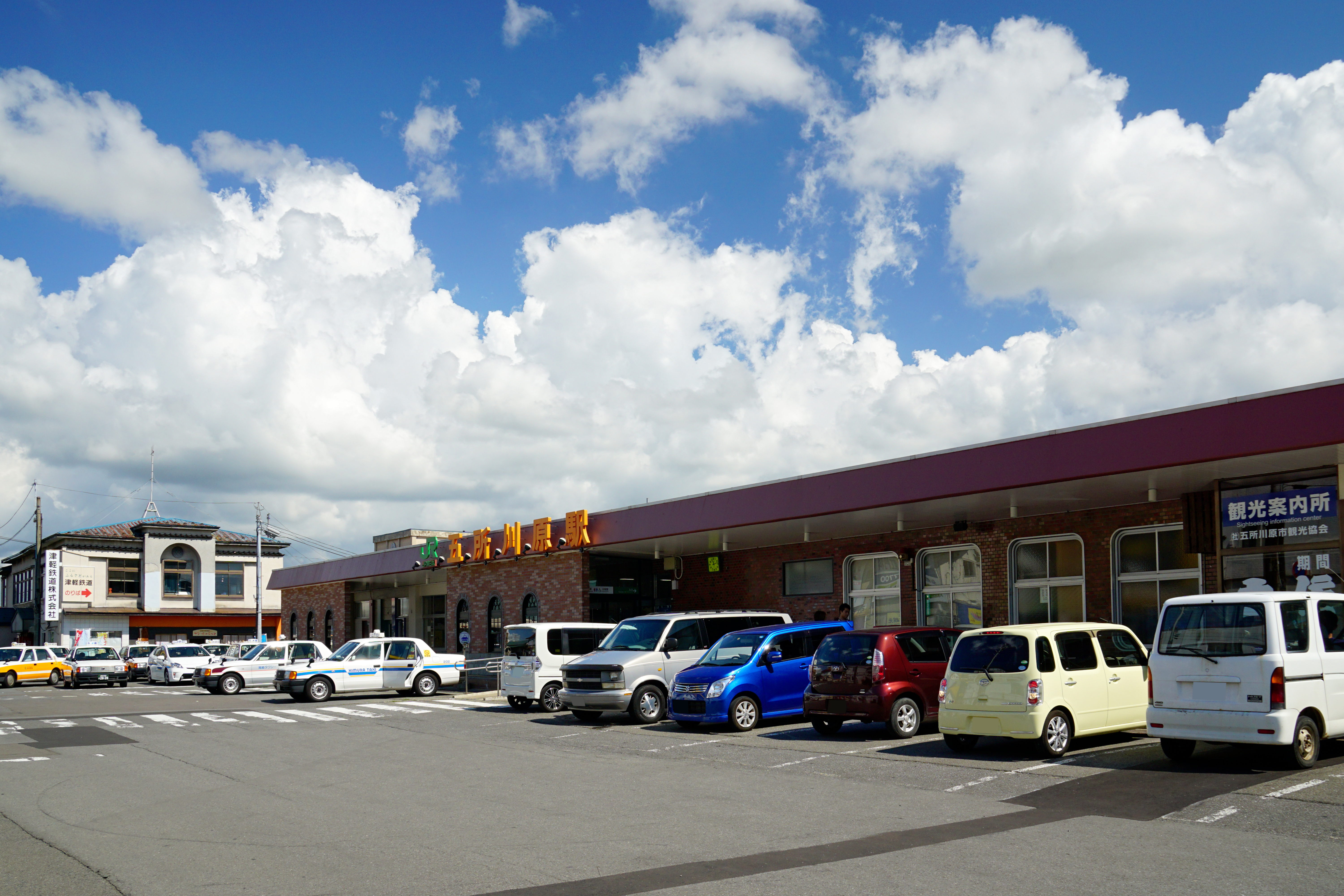 Goshogawara Station in Goshogawara, Aomori prefecture, Japan.